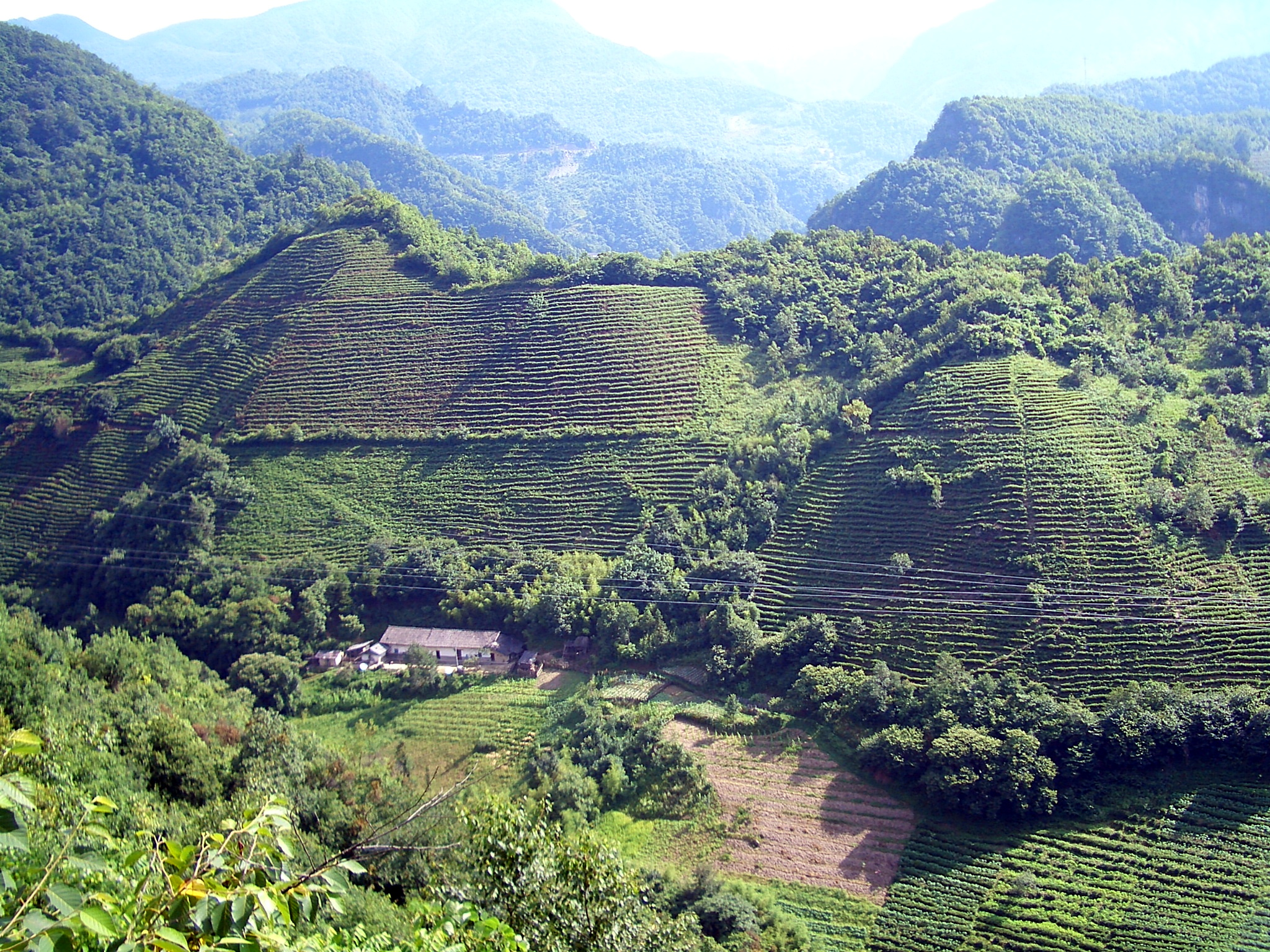 The slopes of the valley (along which G209 runs) north of Muyu, covered with woods and tea plantations